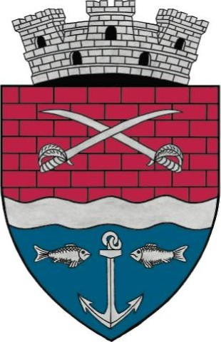 Coat of arms of Zimnicea, Teleorman County, Romania.